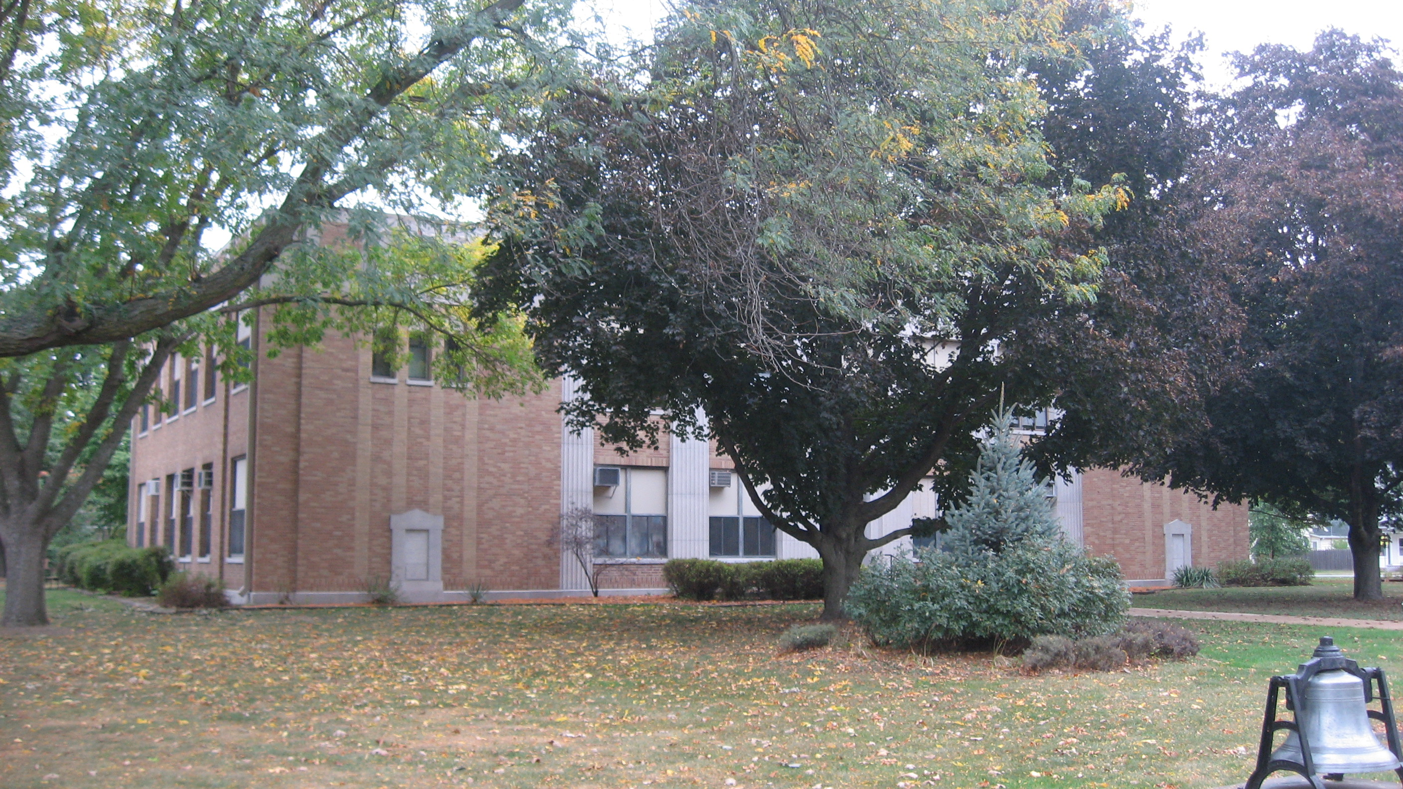 Eastern front and southern side of the Louisa County Courthouse, located at 117 S. Main Street in Wapello, Iowa, United States. Built in 1928, it is listed on the National Register of Historic Places.